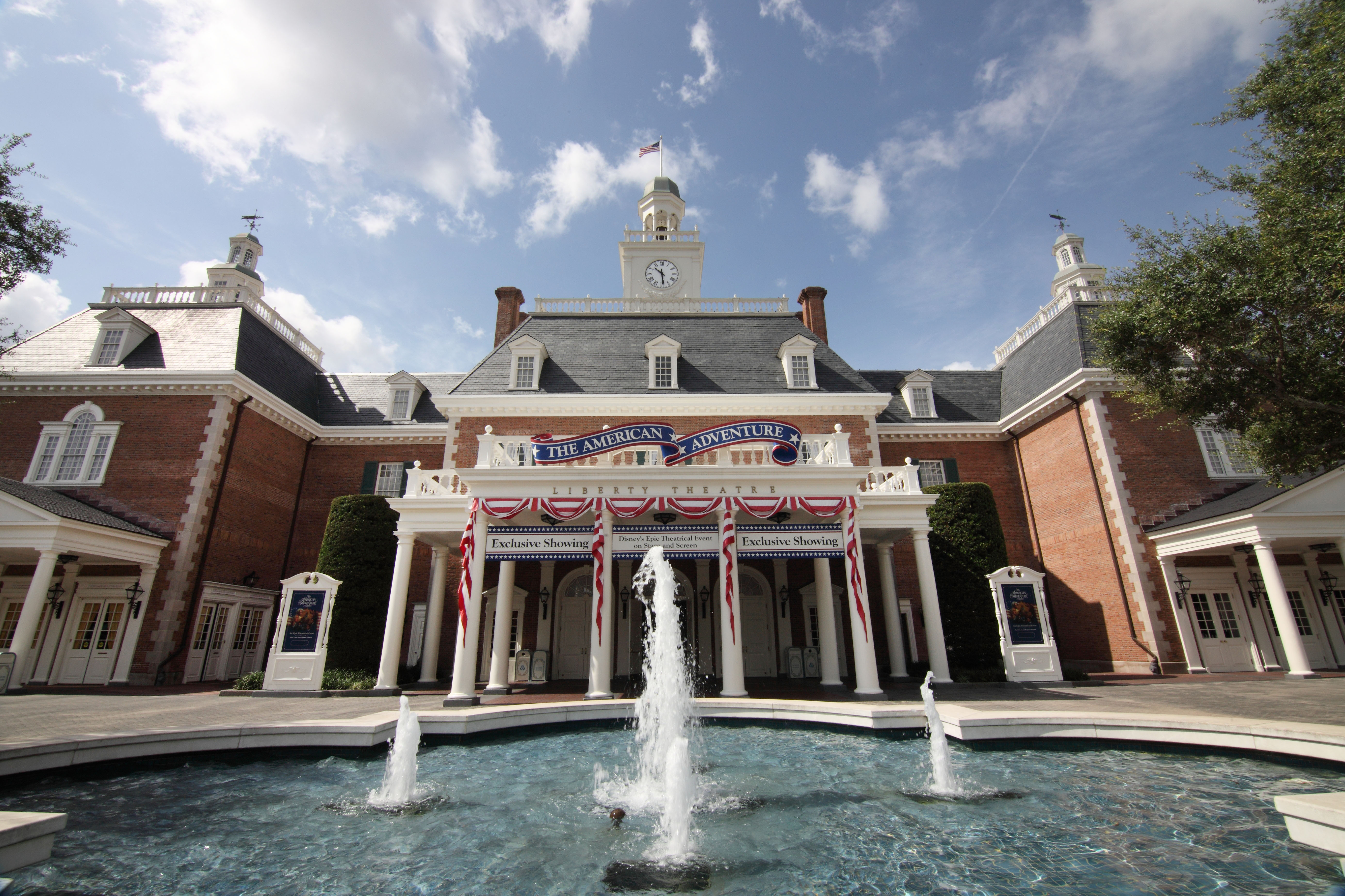 The American Adventure in World Showcase at EPCOT Center.